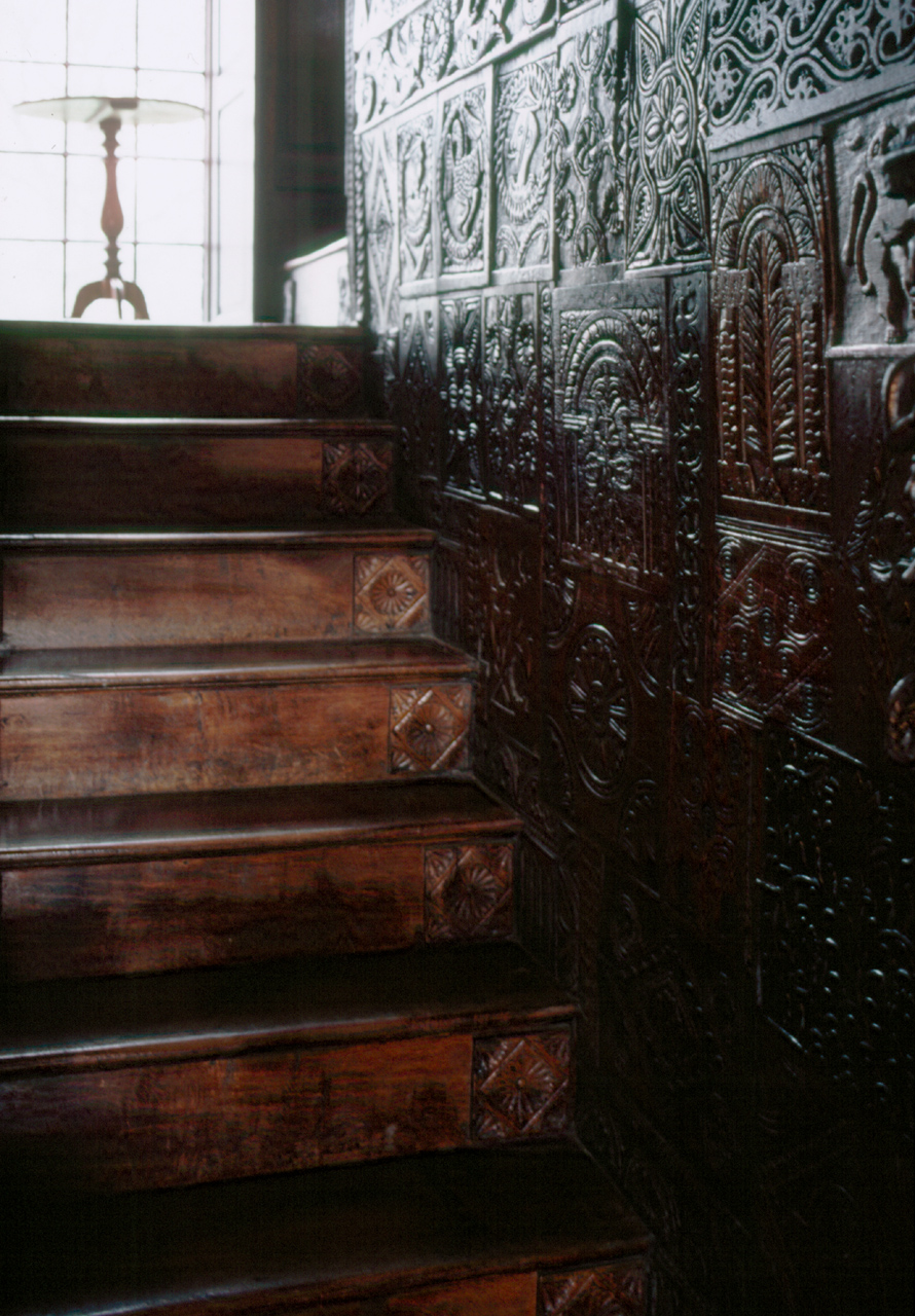 Village of Llangollen in North Wales, Plas Newydd - with oakwood paneled staircase